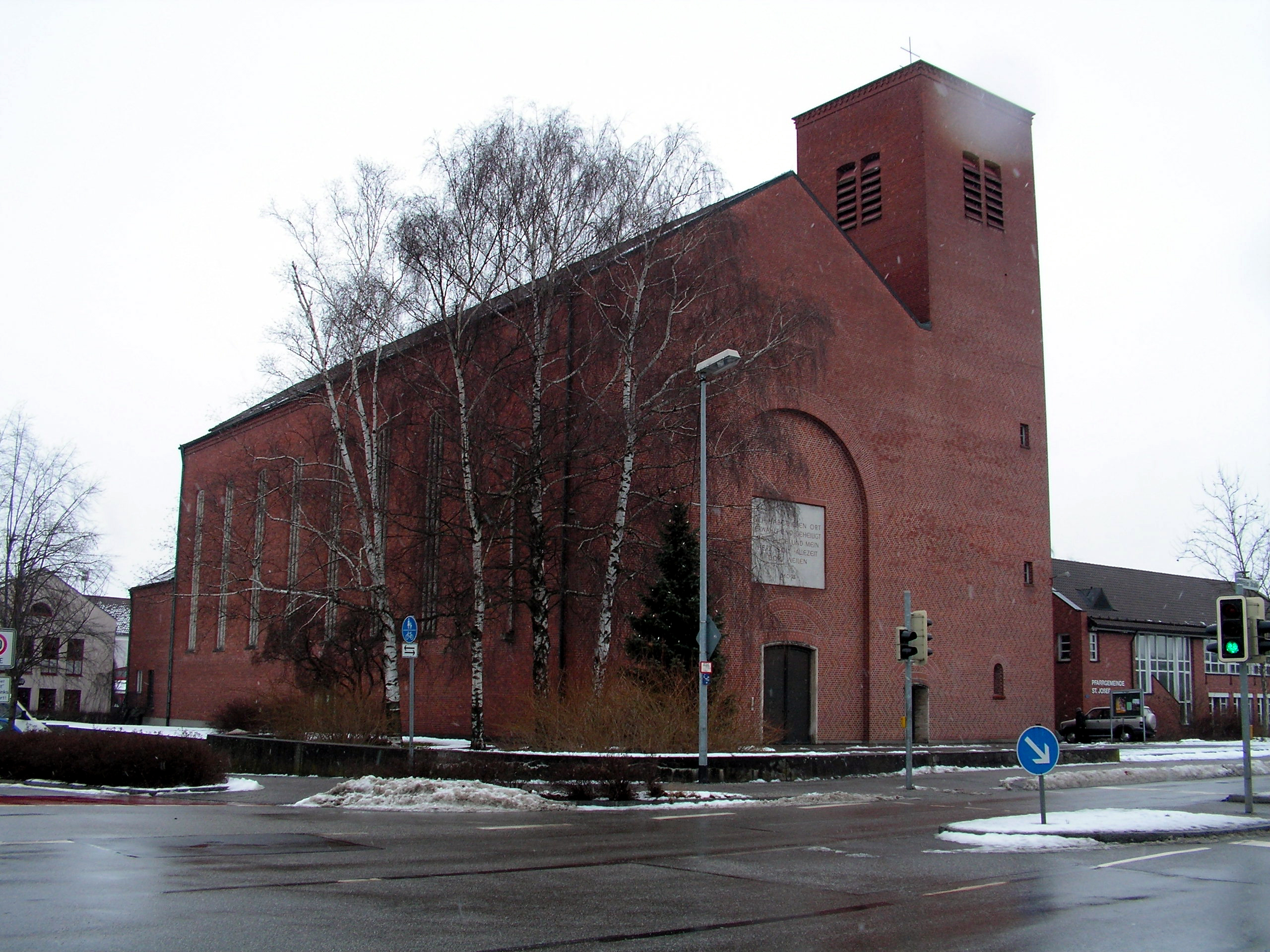 Höll (Dingolfing municipality), St Joseph Parish Church from north-west.